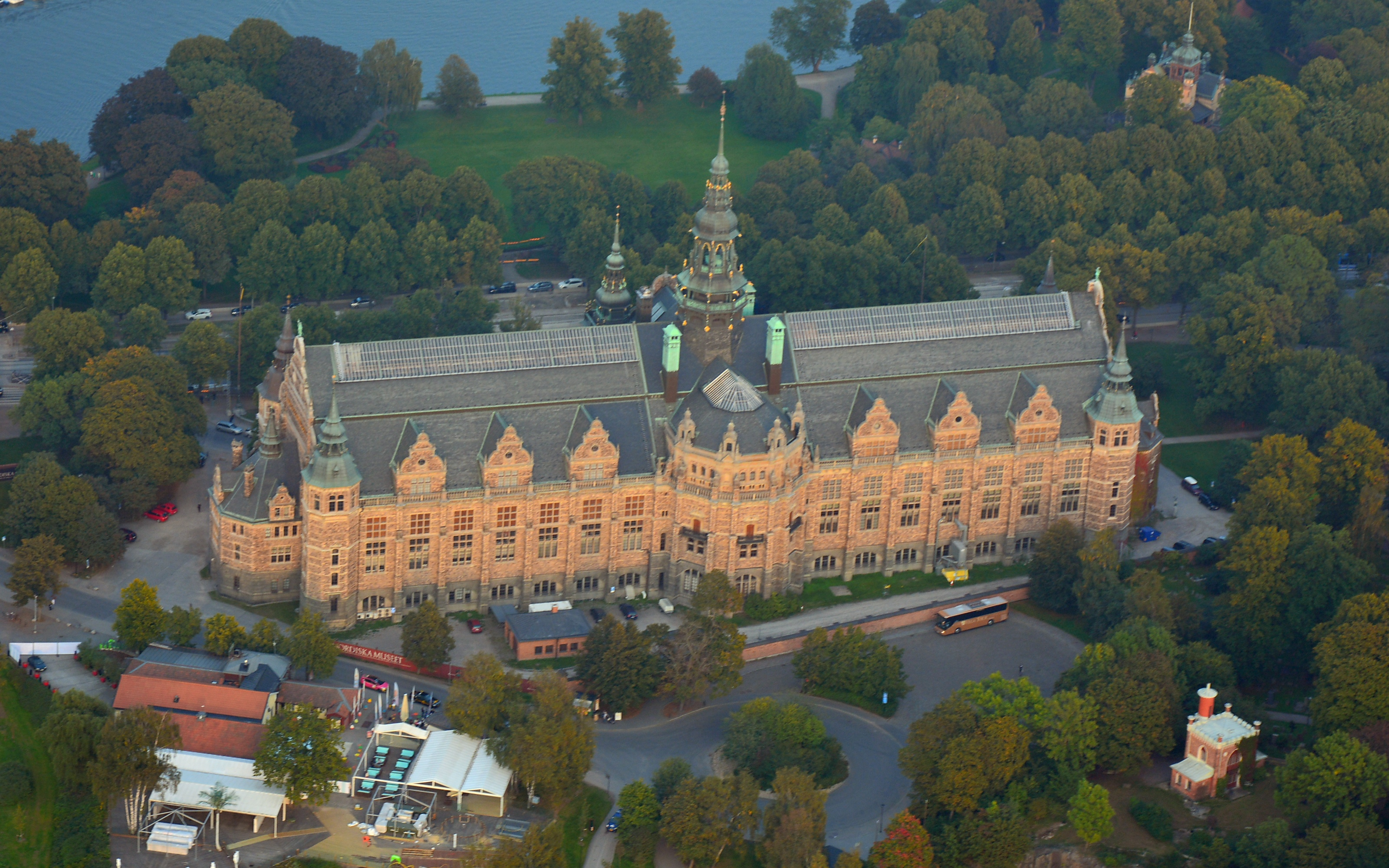 Nordic Museum on Djurgården in Stockholm, Sweden.